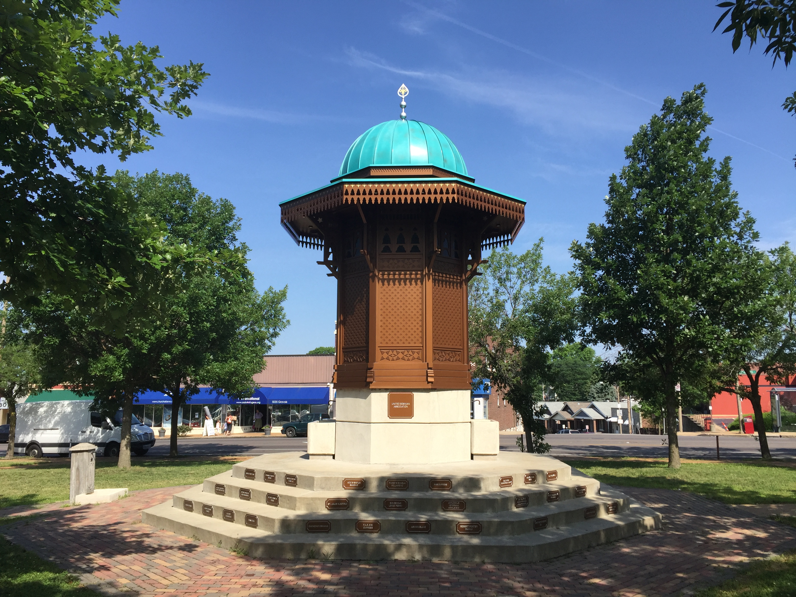 Sebilj fountain in St. Louis, a replica of the sebilj in Sarejevo